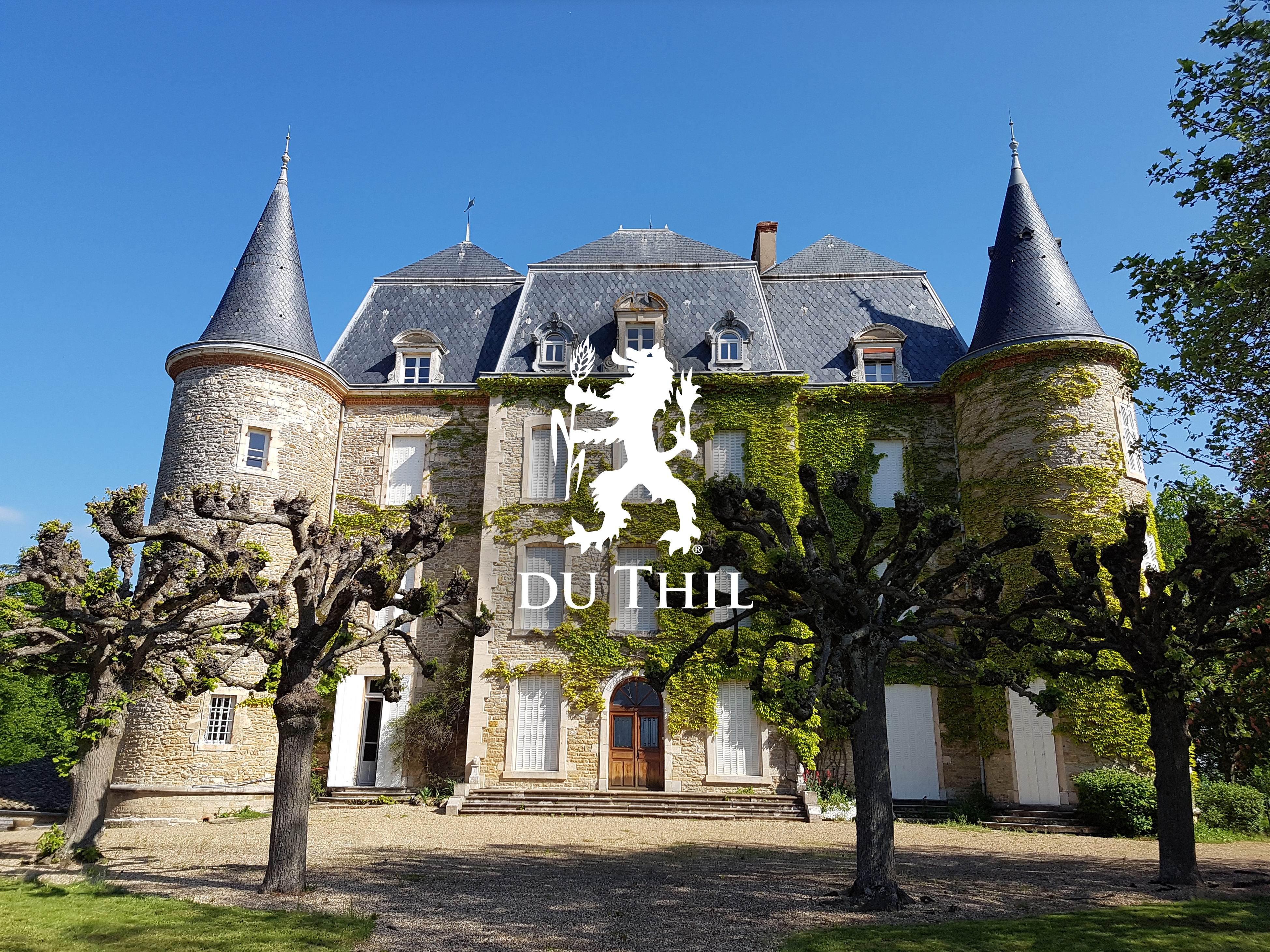 today used as a private home with guest accommodation on request